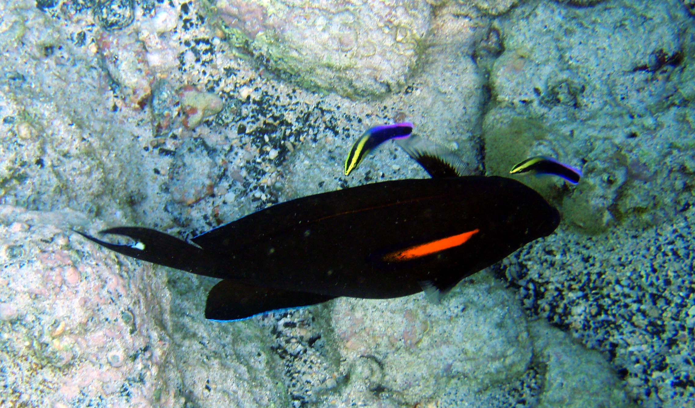 OrangeBand Surgeonfish is being cleaned by two Rainbow Cleaner Wrasses